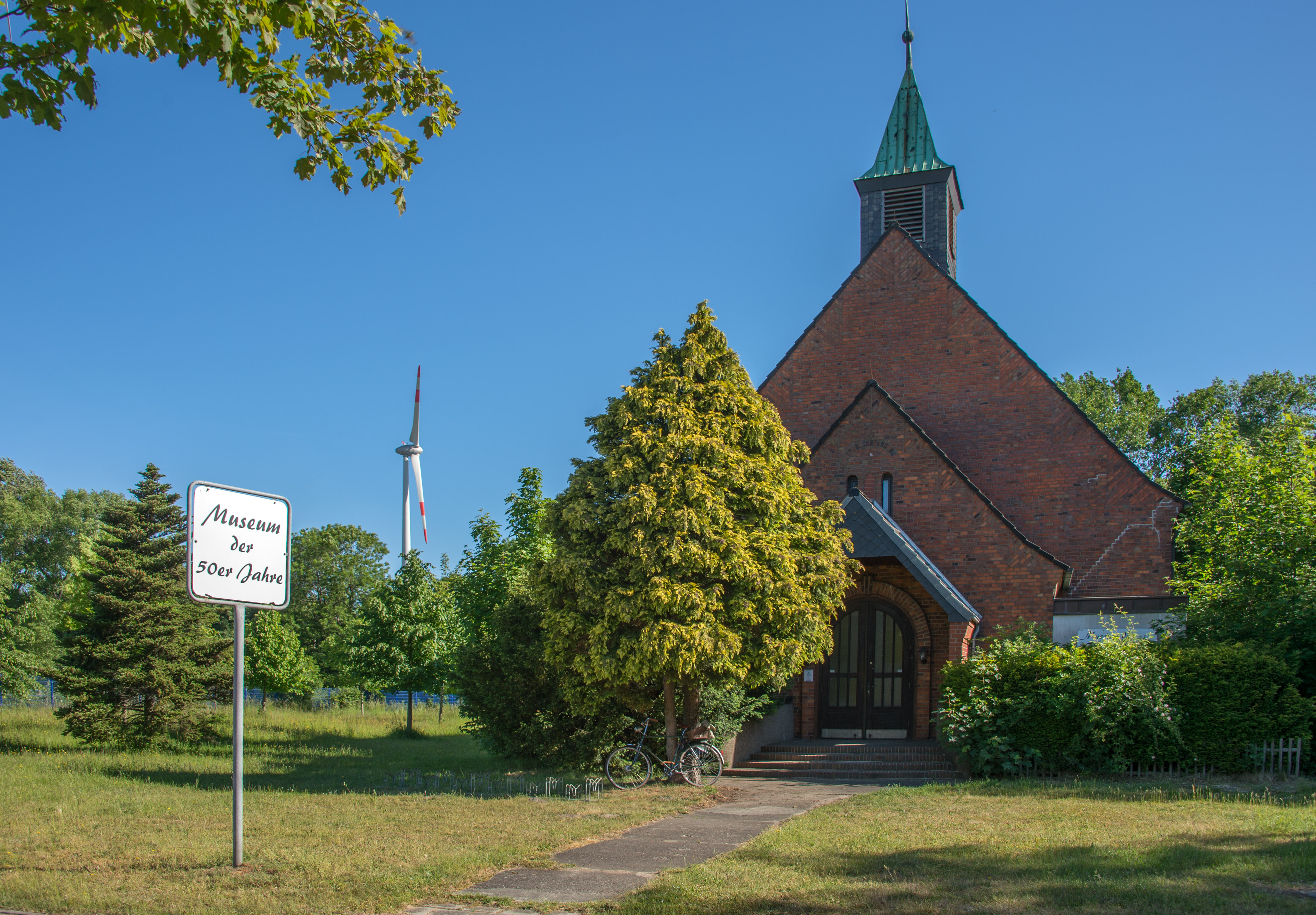 methodist church - remaining building of the former Carl-Schurz-Kaserne in Bremerhaven, staging area of the US-Army in Germany (1945-1993), today "Museum der 50er Jahre